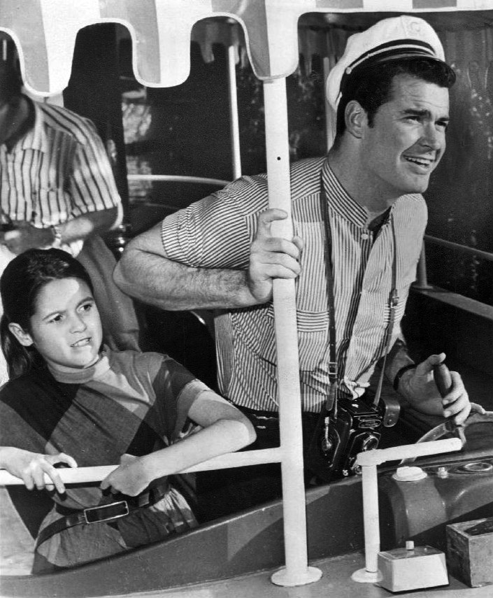 Publicity photo of James Garner and his daughter, Kim. The photo was apparently released by ABC as a "family" publicity photo, since they are on a boat wearing modern clothing and Garner has a camera around his neck as he pilots the boat.